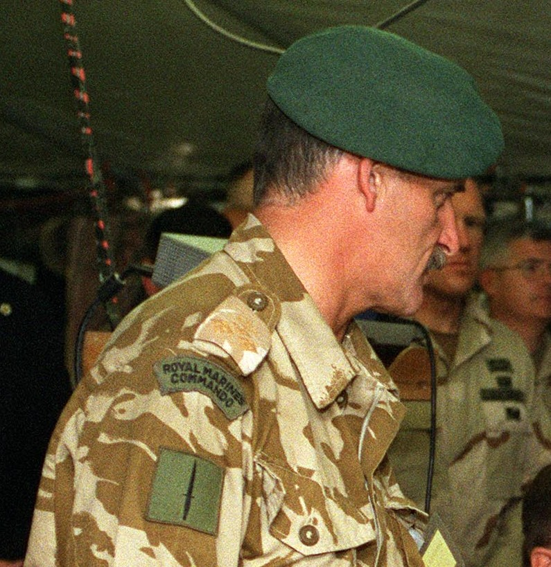 Detail of Commando officer of Her Majesty's Royal Marines (United Kingdom) tells of his units' experiences in fighting Taliban and al-Qaeda forces in the mountains of Afghanistan during a briefing at Bagram Air Base, Afghanistan, on April 27, 2002, to US Secretary of Defense Donald H. Rumsfeld (not in this picture)